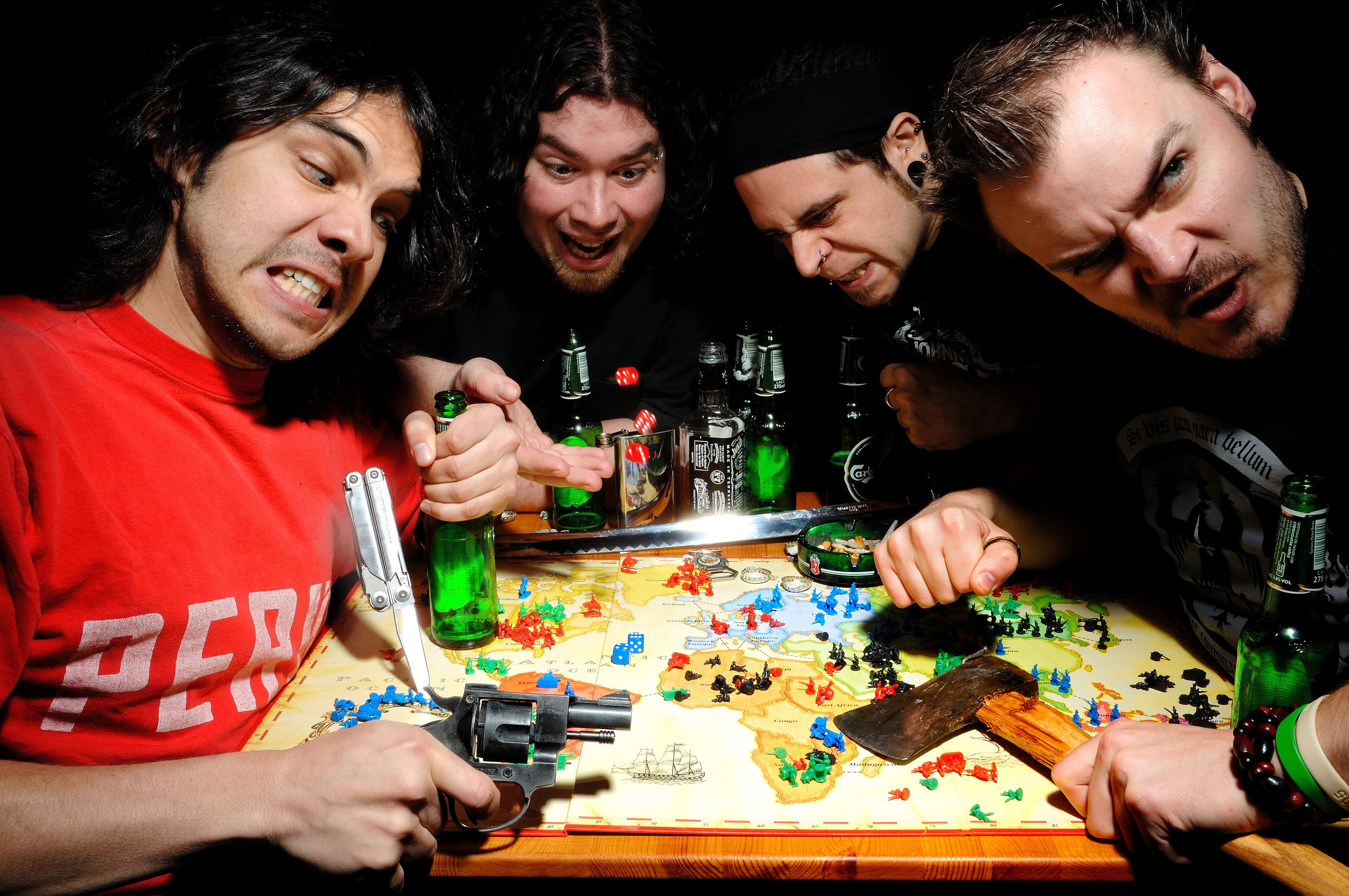 Back of the sleeve artwork for '...And Four More Ways To Fight'. (left to right - Andreas, Big Jim, Mel & Rob)